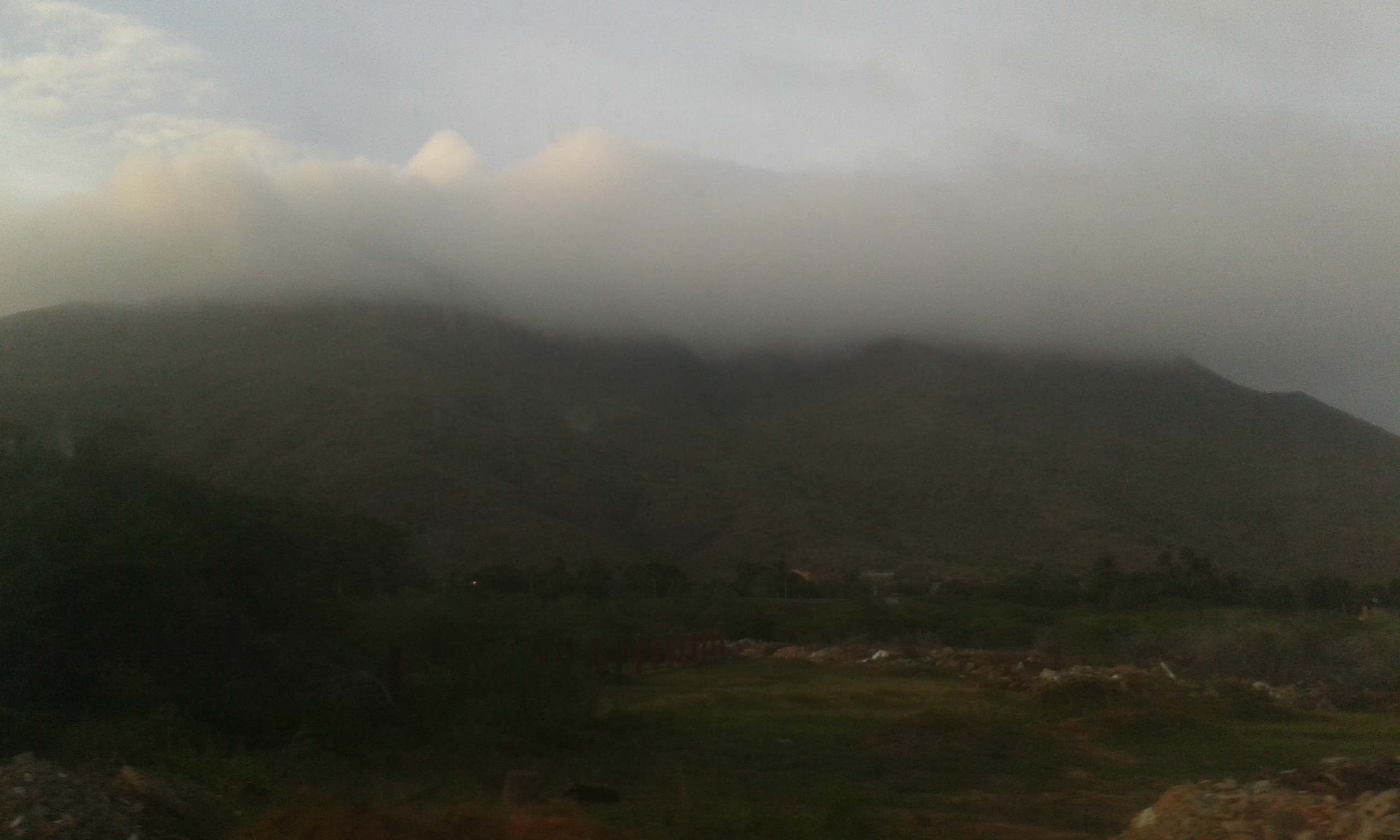 Atamo